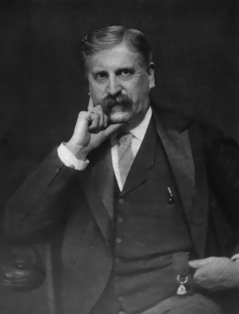 1902 portrait photograph of Charles Rufus Skinner. Caption: "Charles R. Skinner - State Superintendent of Public Education in New York."